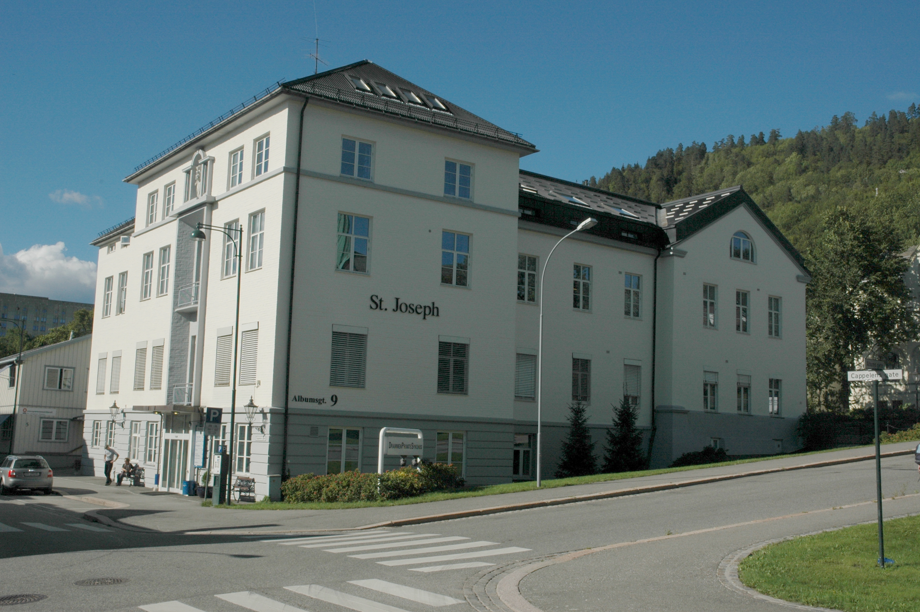 The former catholic St. Josephs hospital in Drammen, 1907-1995.